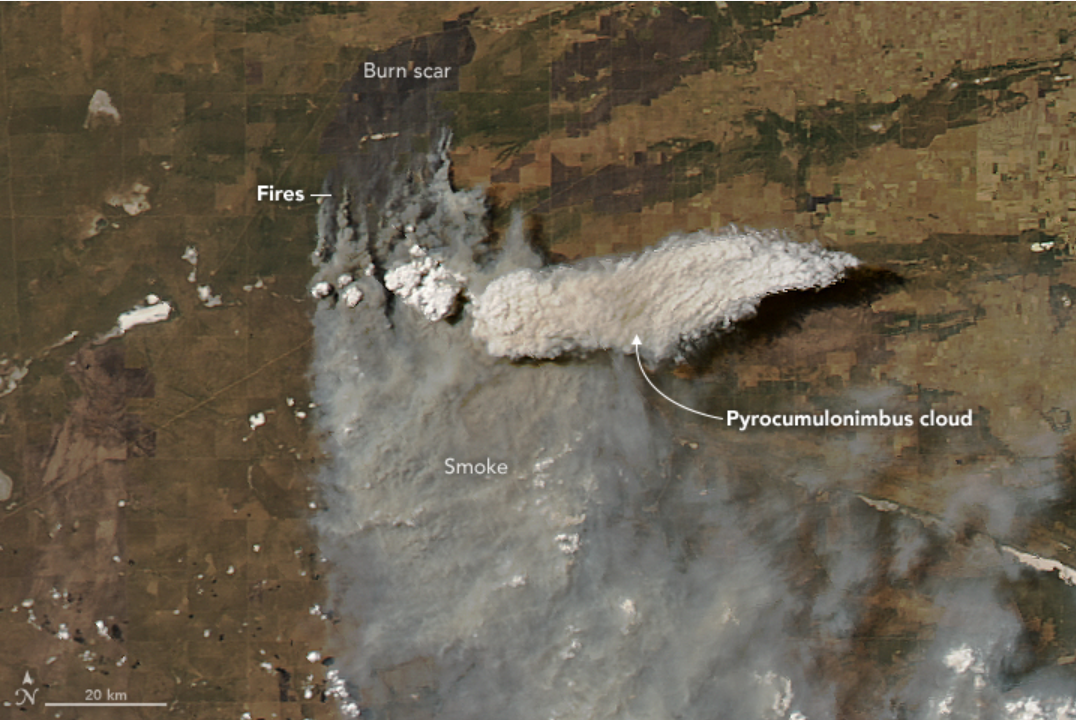 NASA image of a pyrocumulonimbus cloud formation over Argentina in Jan 2018